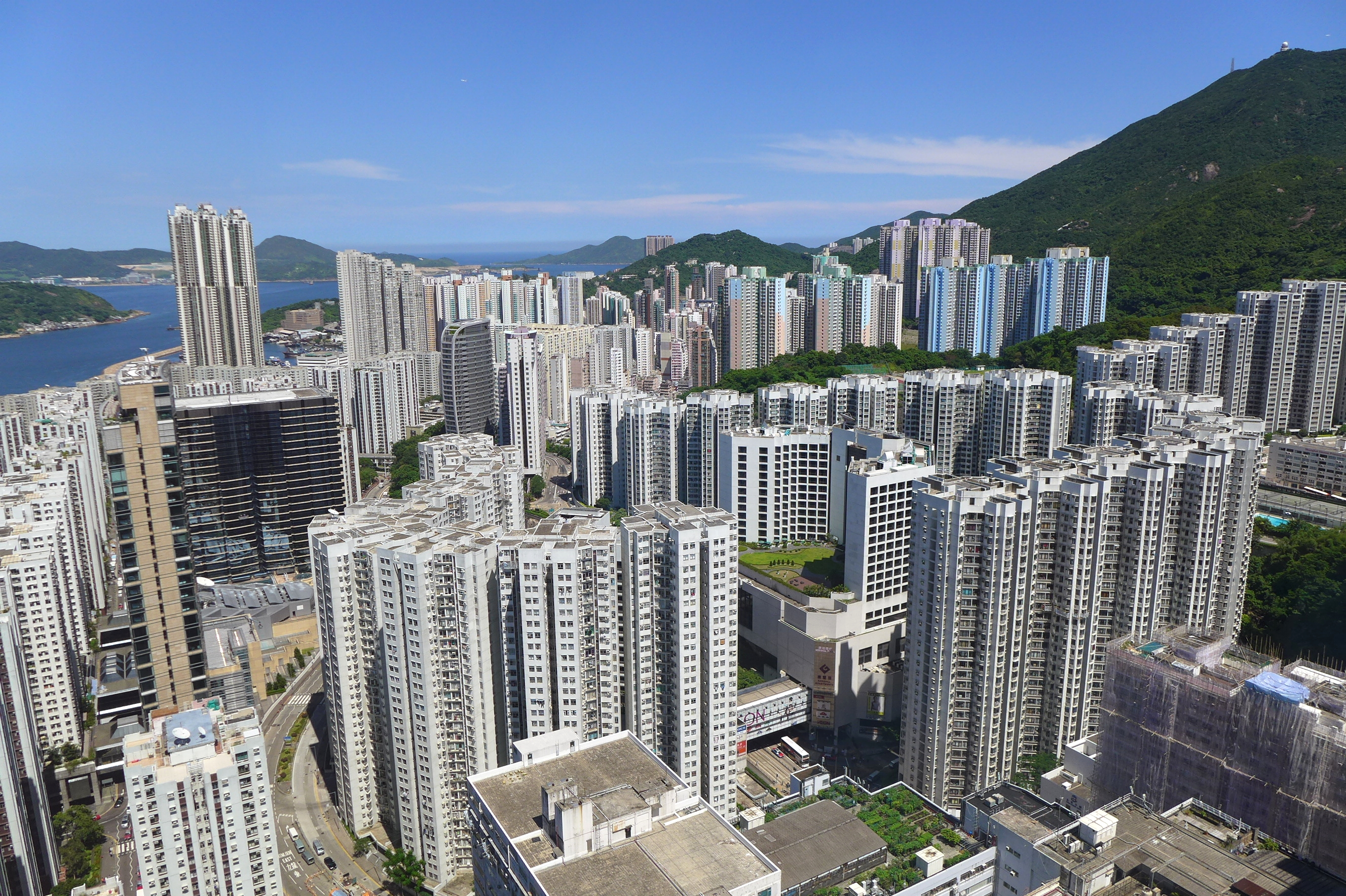 Hong Kong Isnald Eastern District Buildings